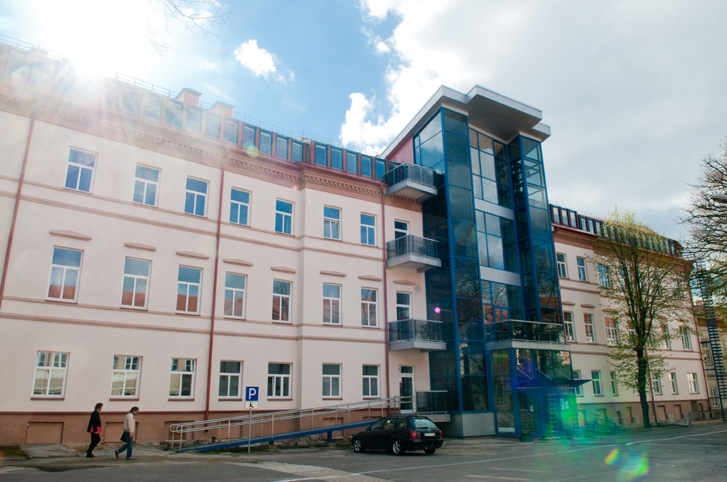 VGTU AF